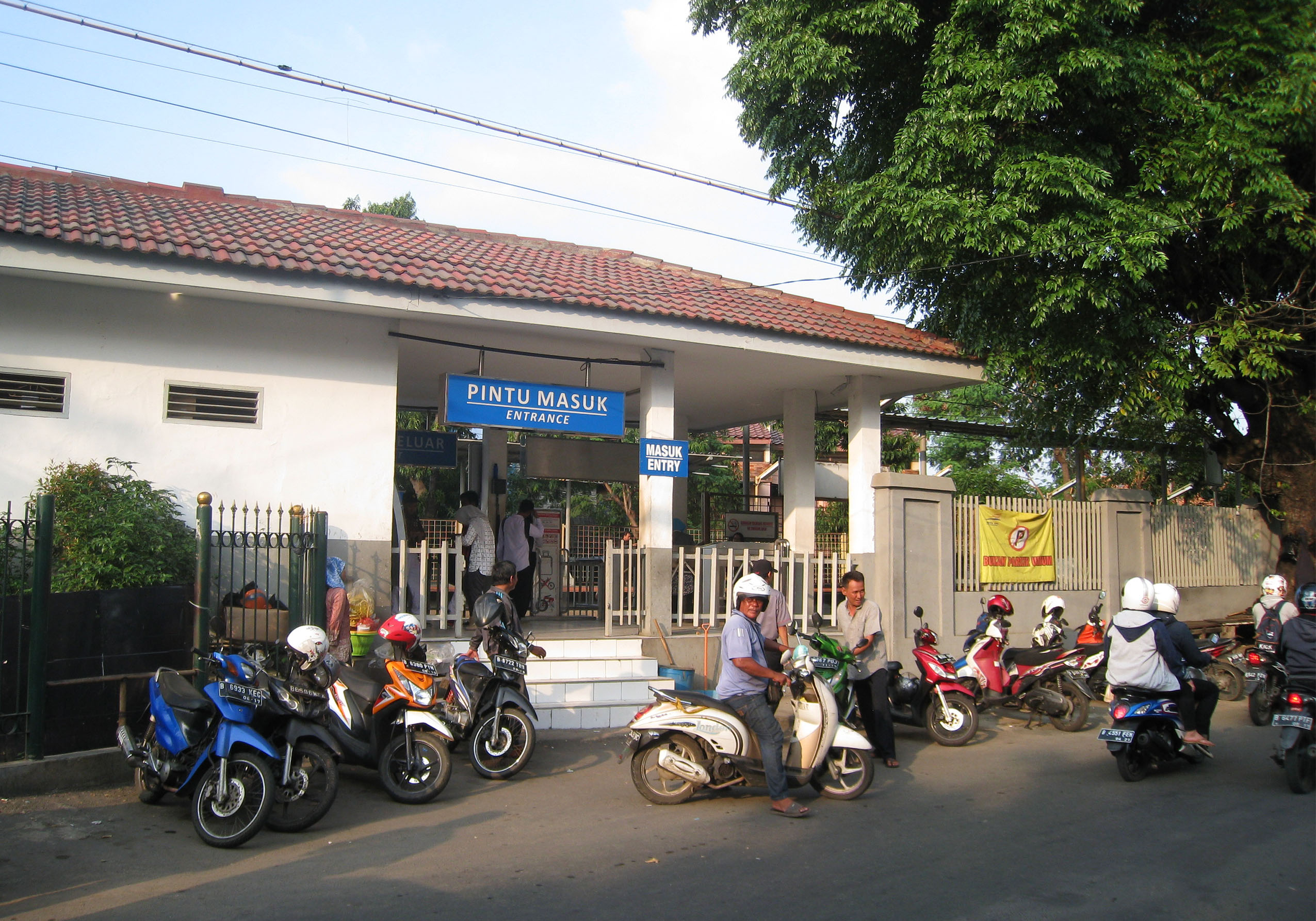 Facade and entrance of Kramat railway station, Central Jakarta, Indonesia.